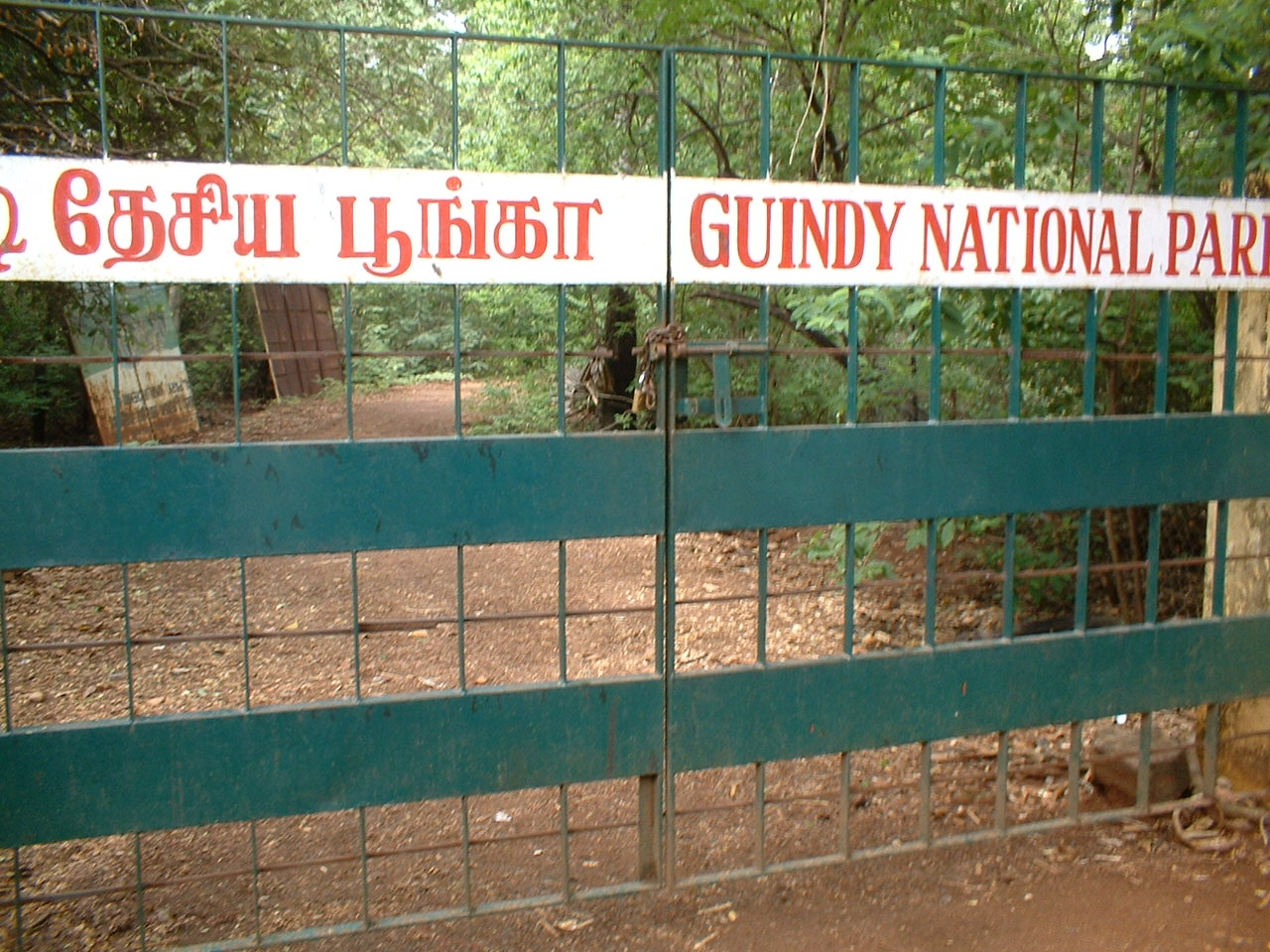 These photos were taken in the Guindy National Park in Chennai.